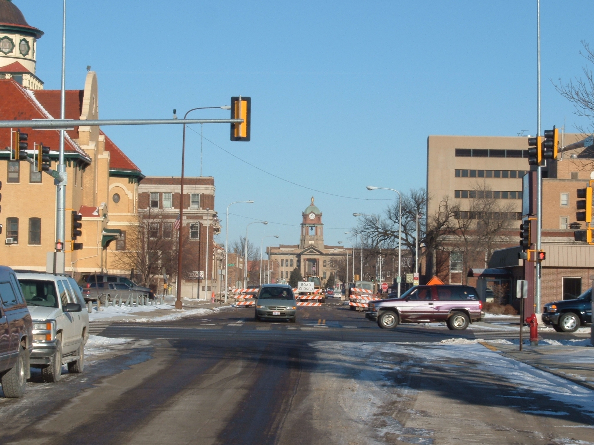 Aberdeen, Brown County, South Dakota